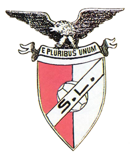 Grupo Sport Lisboa, founded in 28/02/1904